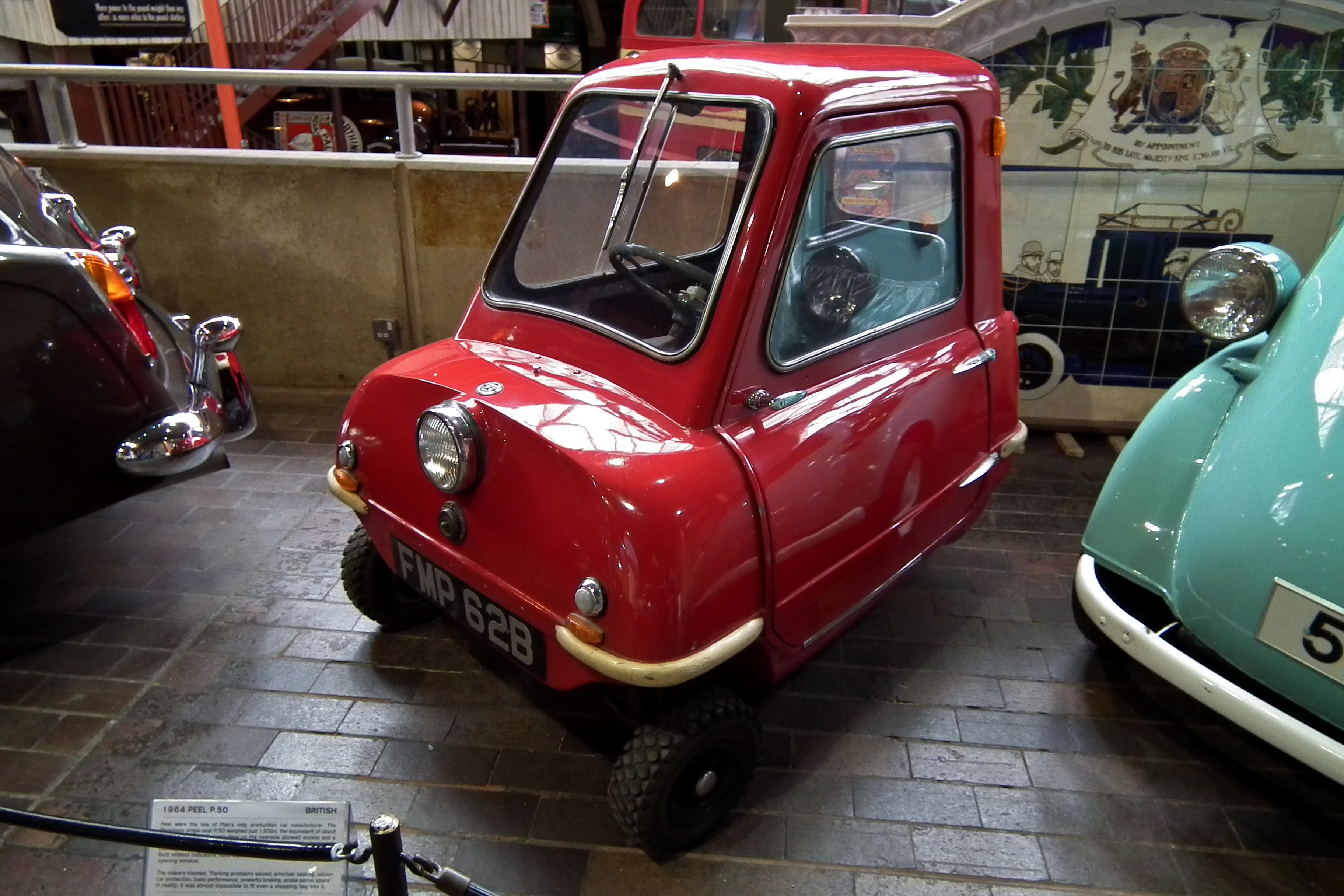 1964 Peel P50. Taken at the National Motor Museum in Beaulieu, Hampshire, England.